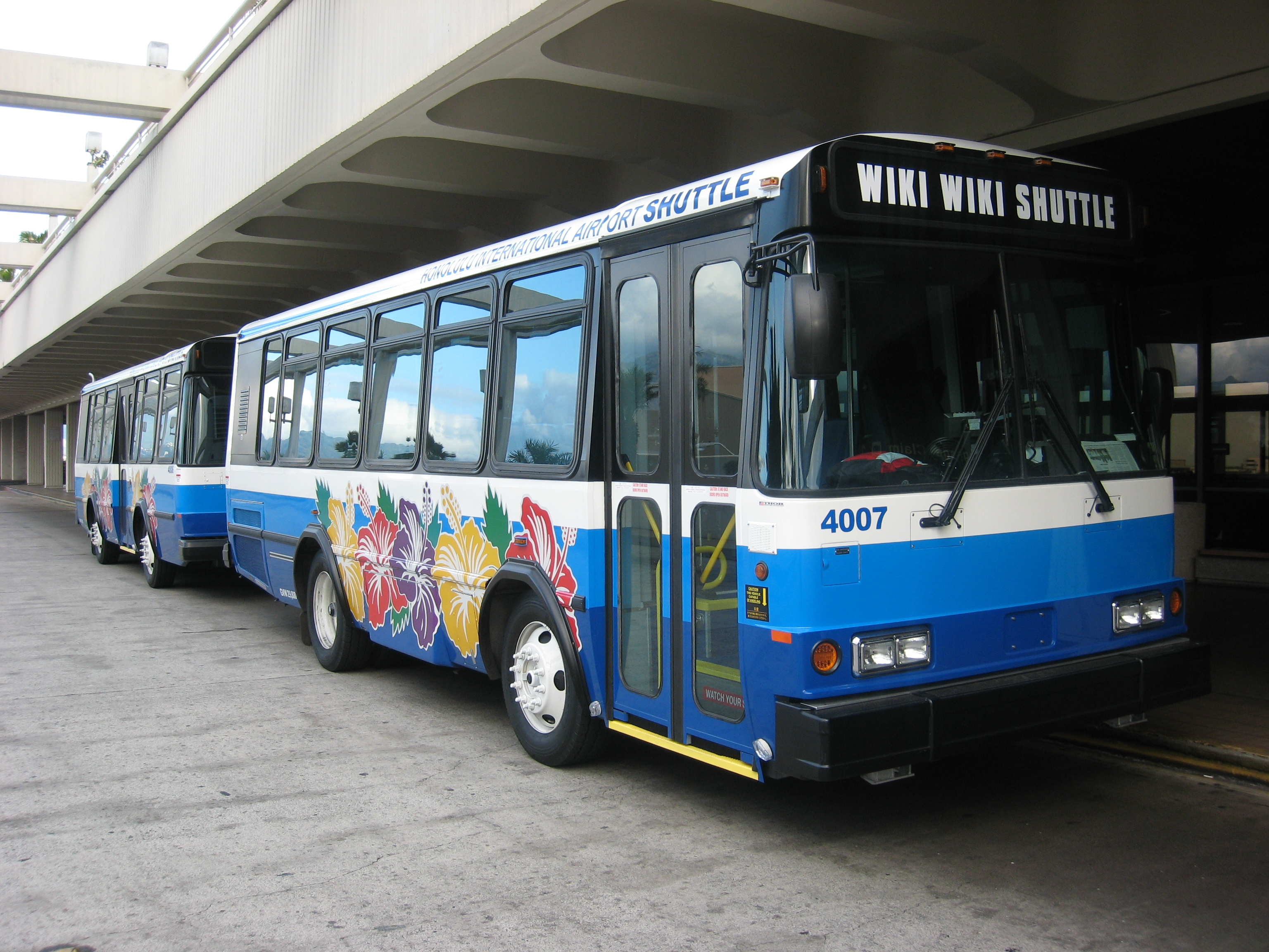 One of the new Wiki Wiki shuttle buses by Eldorado National, replacing the 90's-built Chance shuttles.